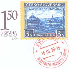 Stamp of Ukraine